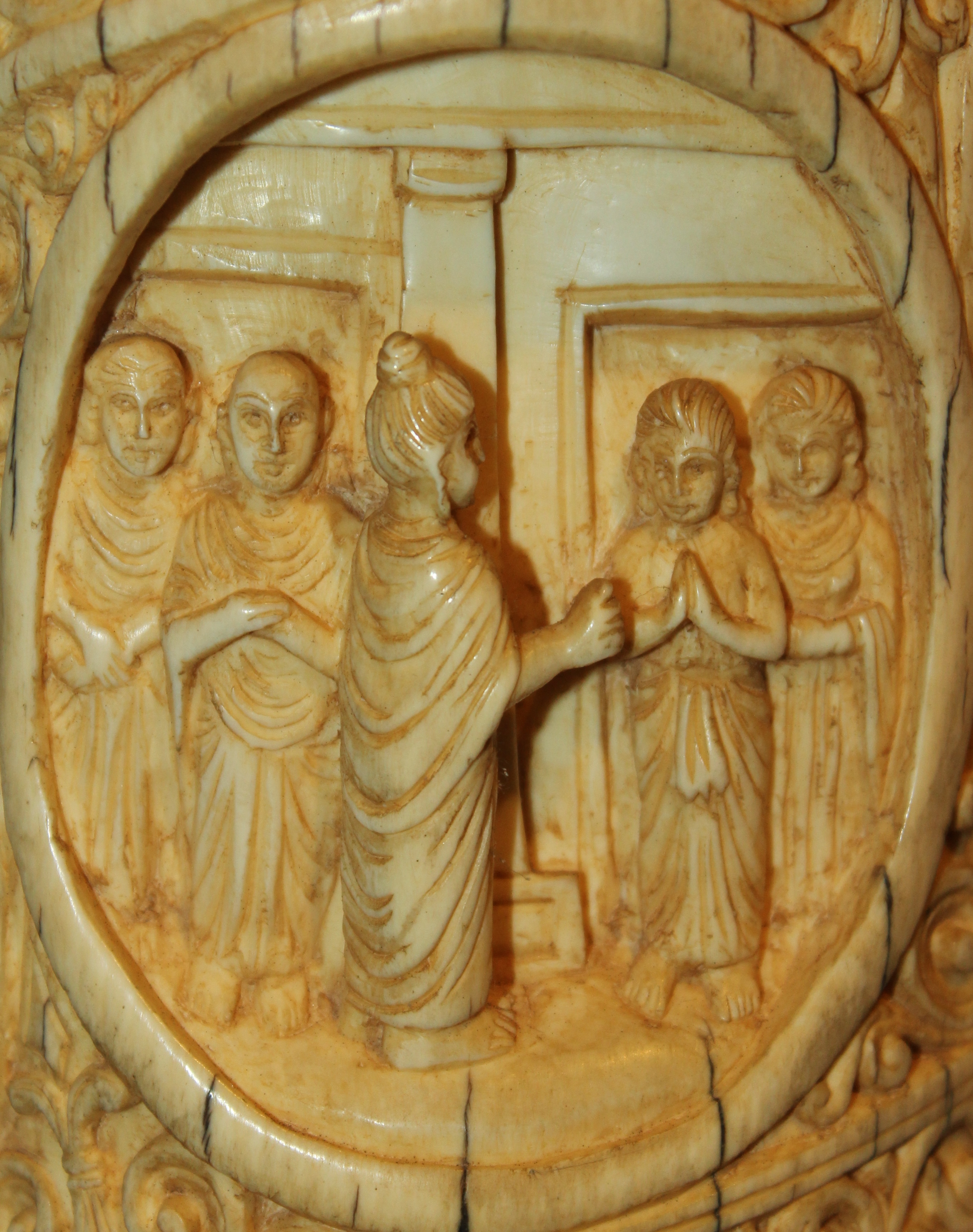 Roundel 34: Buddha with Yasodhara and her son, Rahul